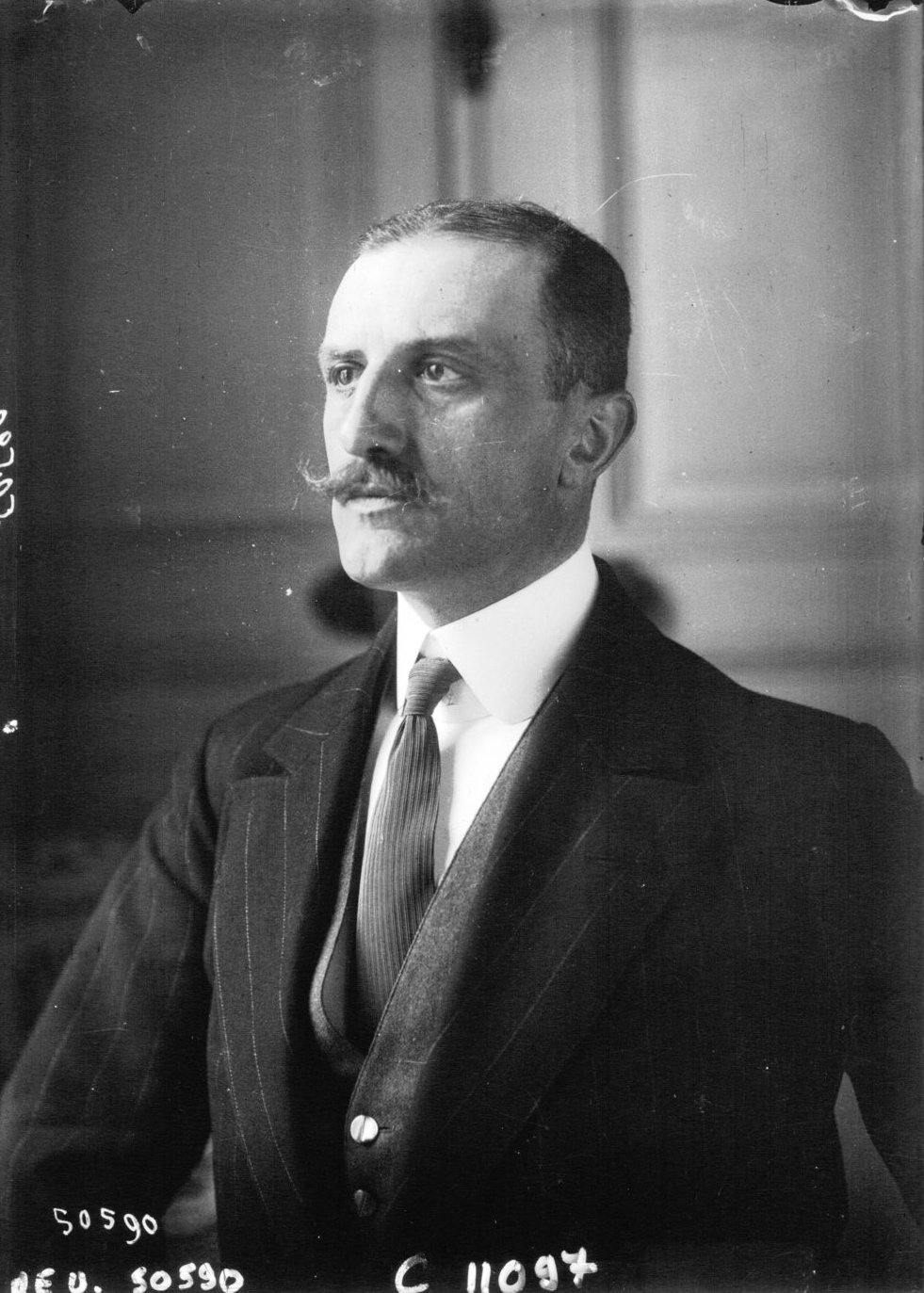 Le capitaine de Goys, aviateur - (photographie de presse) - Agence Meurisse